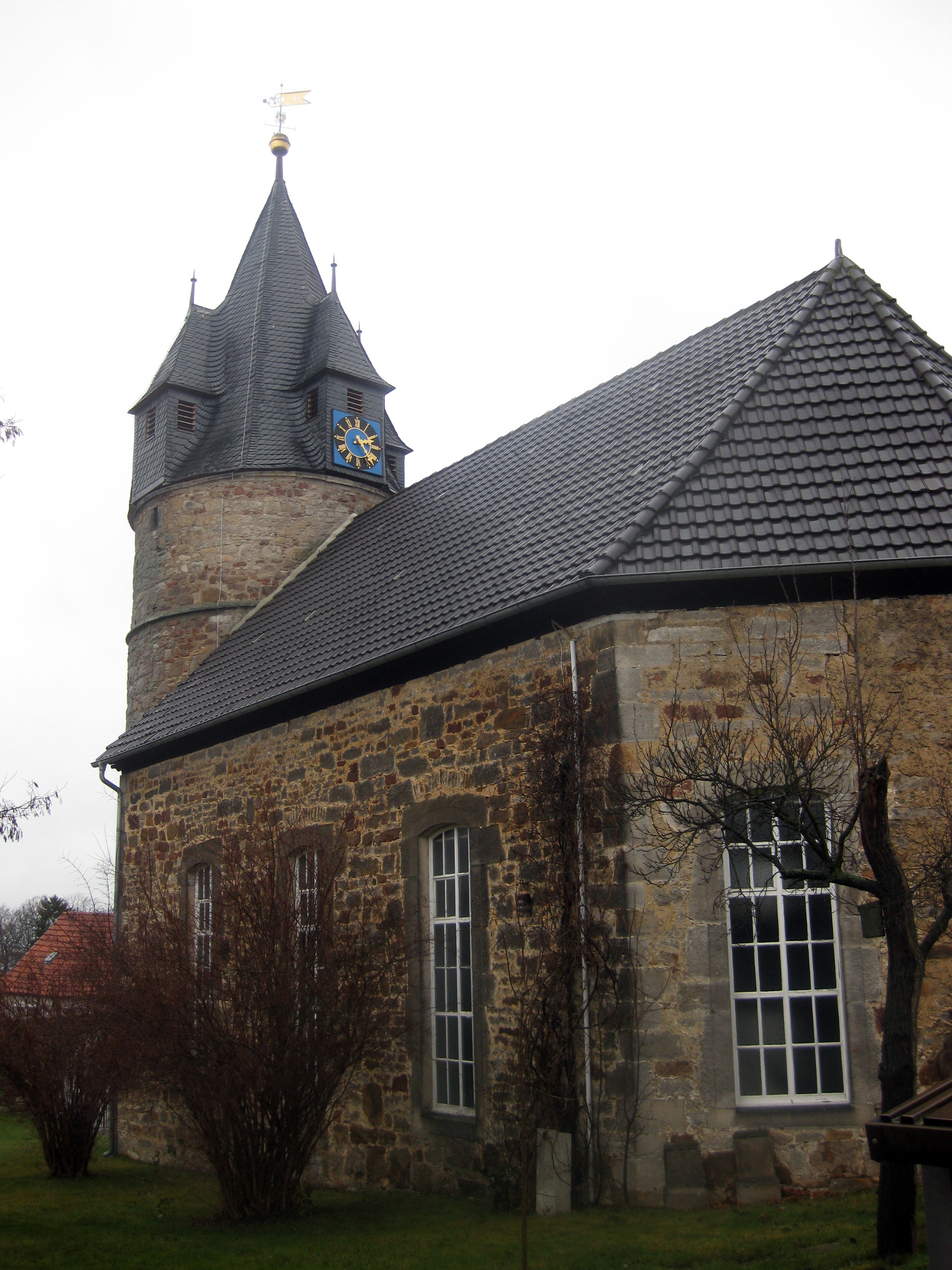 The church in Crumbach, a suburb of LohfeldenThis is a photograph of an architectural monument.It is on the list of cultural monuments of Landkreis Kassel